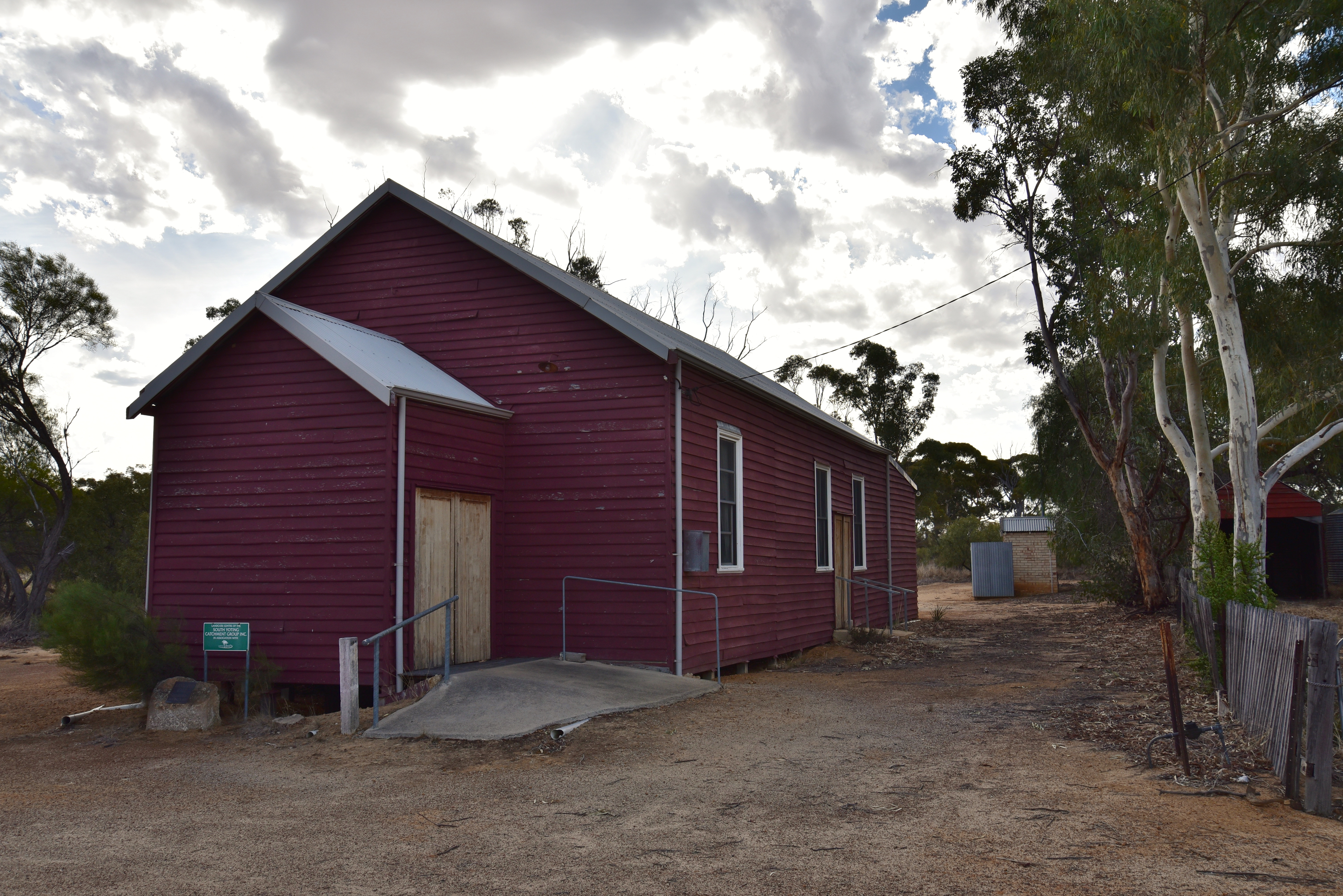 View of the Pantapin Community Hall, Pantapin, Western Australia